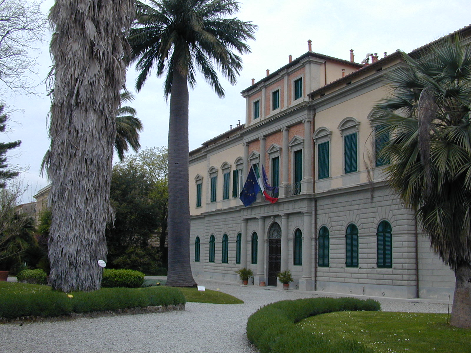 Photo of Pisa botanical garden.